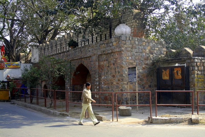 Portion of the City Wall of Shahajanabad City Wall Darya Gunj (early 19th c) This portion of City Wall 200 m east of Delhi Gate on Ansari Road is declared as a protected monument.It was built by British engineers in early 19th century.It is 13m high having spears hole and kangula battlement and ramp for carrying canons to the terrace.